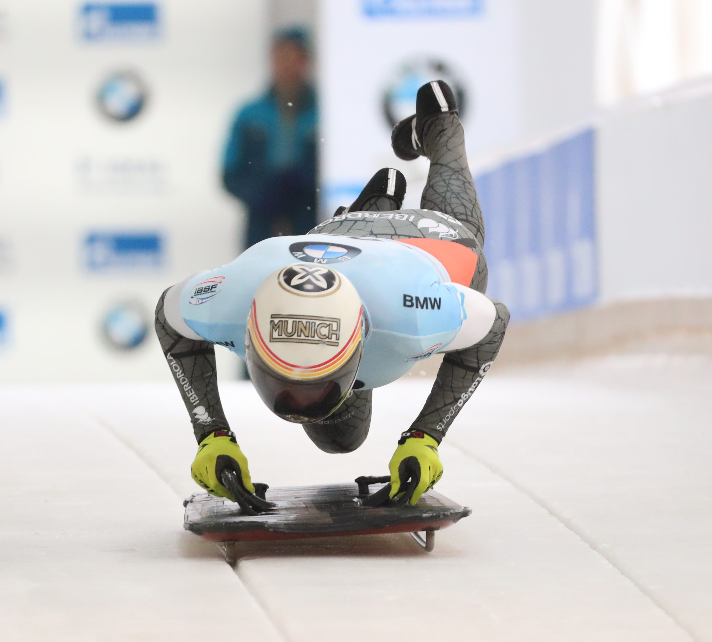 1st run at the Men's Skeleton at the Bobsleigh and Skeleton World Championships 2020 in Altenberg